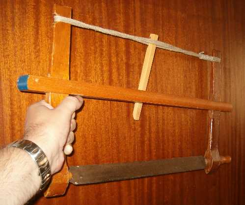 Children-size framesaw. Model of Aksel Mikkelsen ~1900